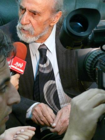 dasthaye pire honarmand dar akharin mosahebe...